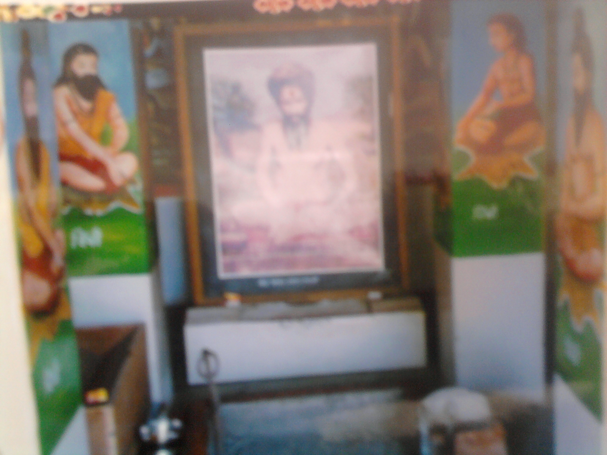 I(wikiuser:SHEMAROO) have taken this photo with my camera for wikipedia.This about Samadh(musoleum) of Baba Tehaldas ji. Shemaroo|User:Shemaroo|Shemaroo (talk|User talk:Shemaroo|talk) 17:24, 1 June 2013 (UTC)